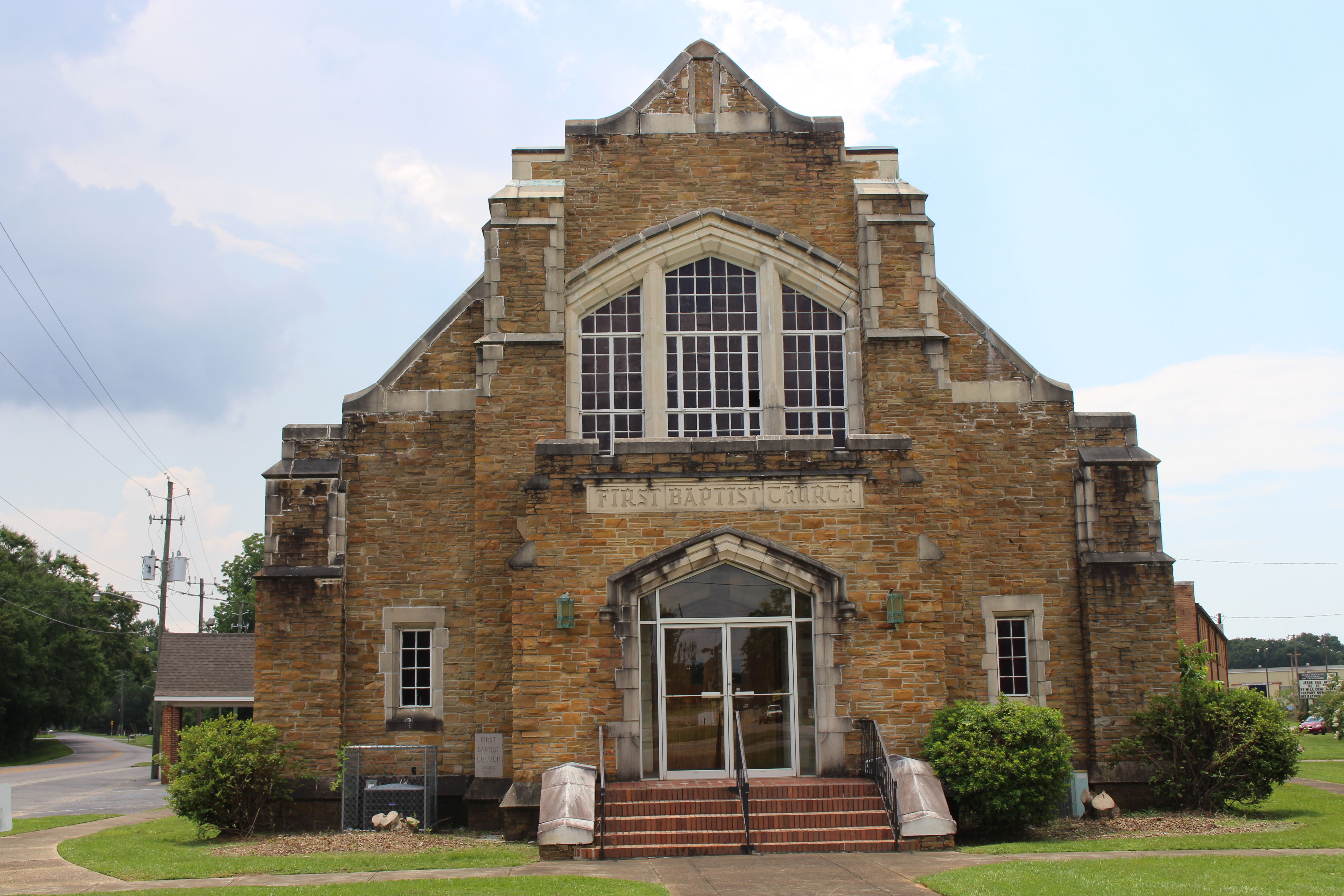 First Baptist Church, 7125 Bellingrath Rd, Theodore, AL 36582